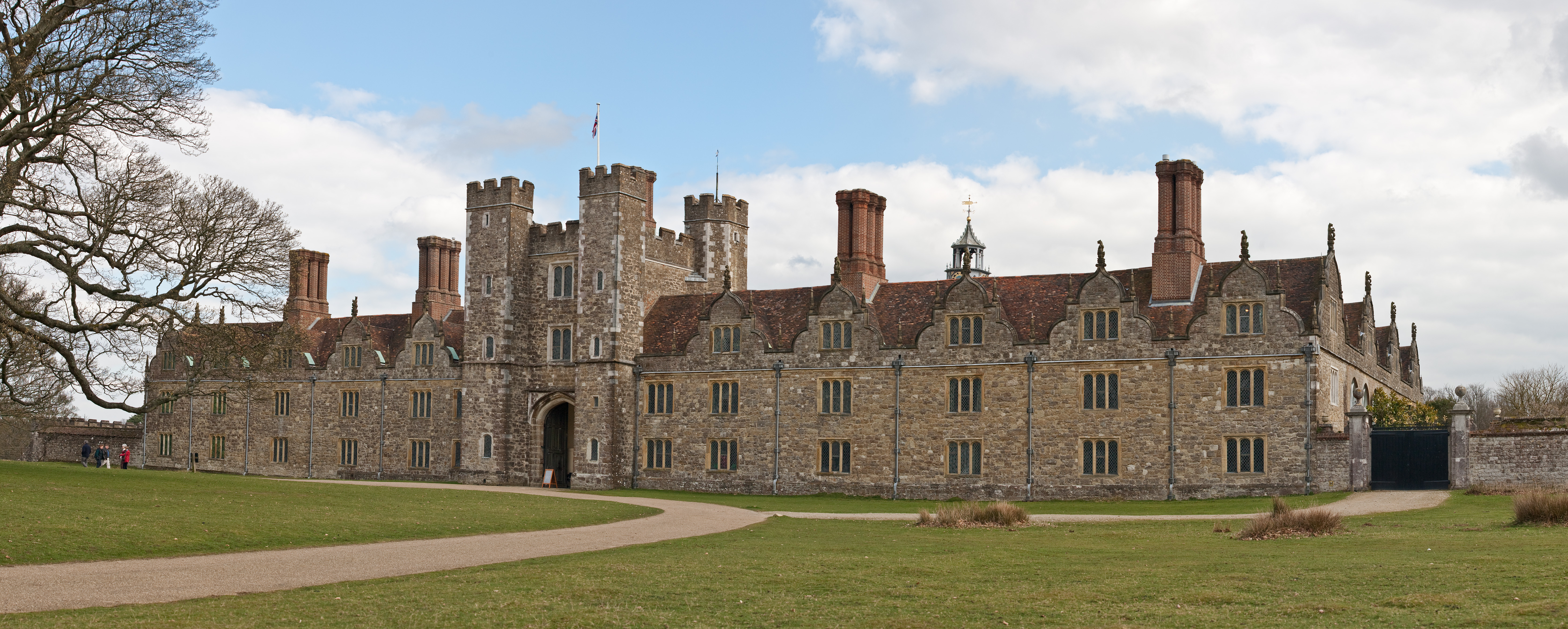 Knole as viewed from the grounds. Taken as a 5 segment panorama with a Canon 5D and 70-200mm f/2.8L lens.